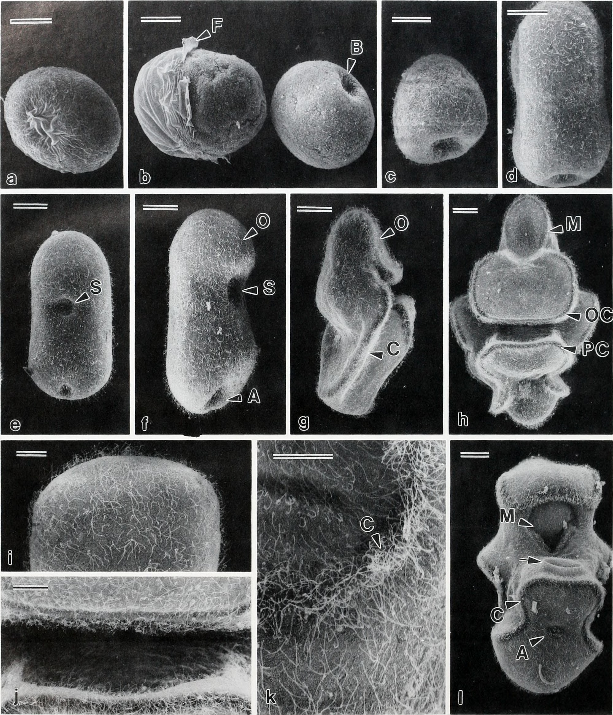 Title: The Biological bulletin Year: [1] (s) Authors: Marine Biological Laboratory (Woods Hole, Mass. ); Marine Biological Laboratory (Woods Hole, Mass. ). Annual report 1907/08-1952; Lillie, Frank Rattray, 1870-1947; Moore, Carl Richard, 1892-; Redfield, Alfred Clarence, 1890-1983 Subjects: Biology; Zoology; Biology; Marine Biology Publisher: Woods Hole, Mass. : Marine Biological Laboratory Text Appearing Before Image: ' Text Appearing After Image: Figure 3. SEM of development through the bipinnaria stage, a. Late blastula within the fertilization membrane, b. Hatching and newly hatched gastrulae. B. blastopore; F. fertilization membrane, c. Gastrula starting to elongate, d. Elongate gastrula. e. Early bipinnaria forming the stomodeal invagination (S). f. Bipinnanal shape starting to develop, the stomodeum (S) has enlarged and the blaslopore has moved to a ventral position to form the anus (A). O, forming oral hood. g. Bipinnaria side view with a distinct oral hood (O) and ciliary tracts (C). h. Late bipinnaria ventral view with oral- (OC) and postoral (PC) ciliary tracts. M, mouth, i. Ciliary field covering gastrula. j. Detail of bipinnaria in Figure 3h, showing the ciliary tracts around mouth and scattered cilia covering the larva, k. Ciliary tract (C) of a bipinnaria. 1. Bipinnaria fixed in the dorsally-llexed position showing the plug-like structure on the post-oral surface (arrow). A. anus; M. mouth; C, ciliary tract. Scales: Fig. 3a-h. I = 50 ^m; Fig. 3i-k = 20 ^m. 338